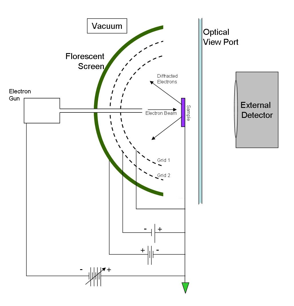 This image describes the basic operation of a low energy electron diffraction system.